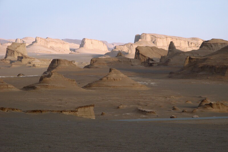 The "sand castles" in the Dasht-e Lut desert, Kerman, Iran.